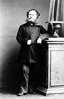 Ludwik Mierosławski (1814-1878), first dictator of Polish January Uprising (1863)